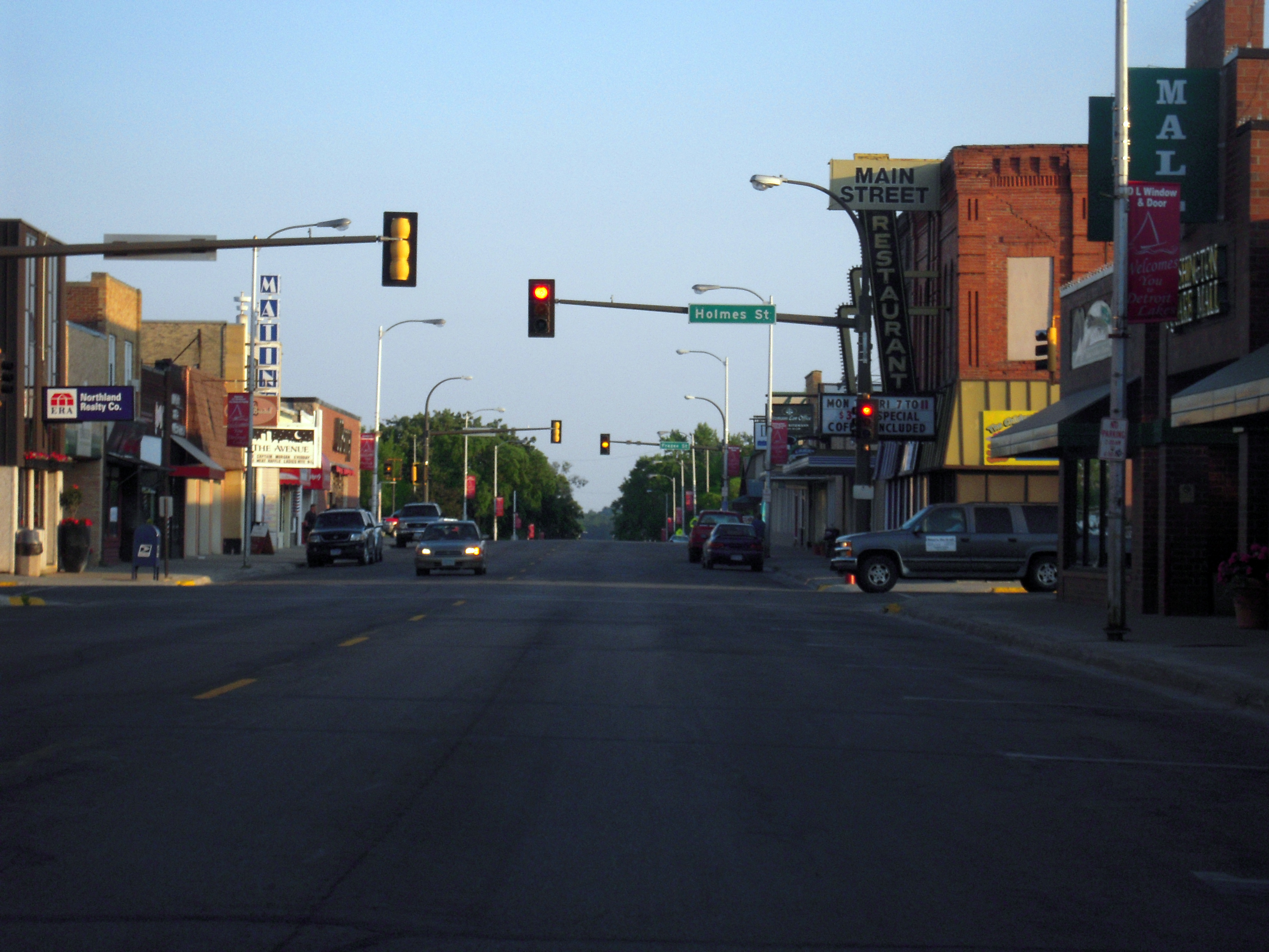 Washington Avenue, downtown Detroit Lakes, Minnesota